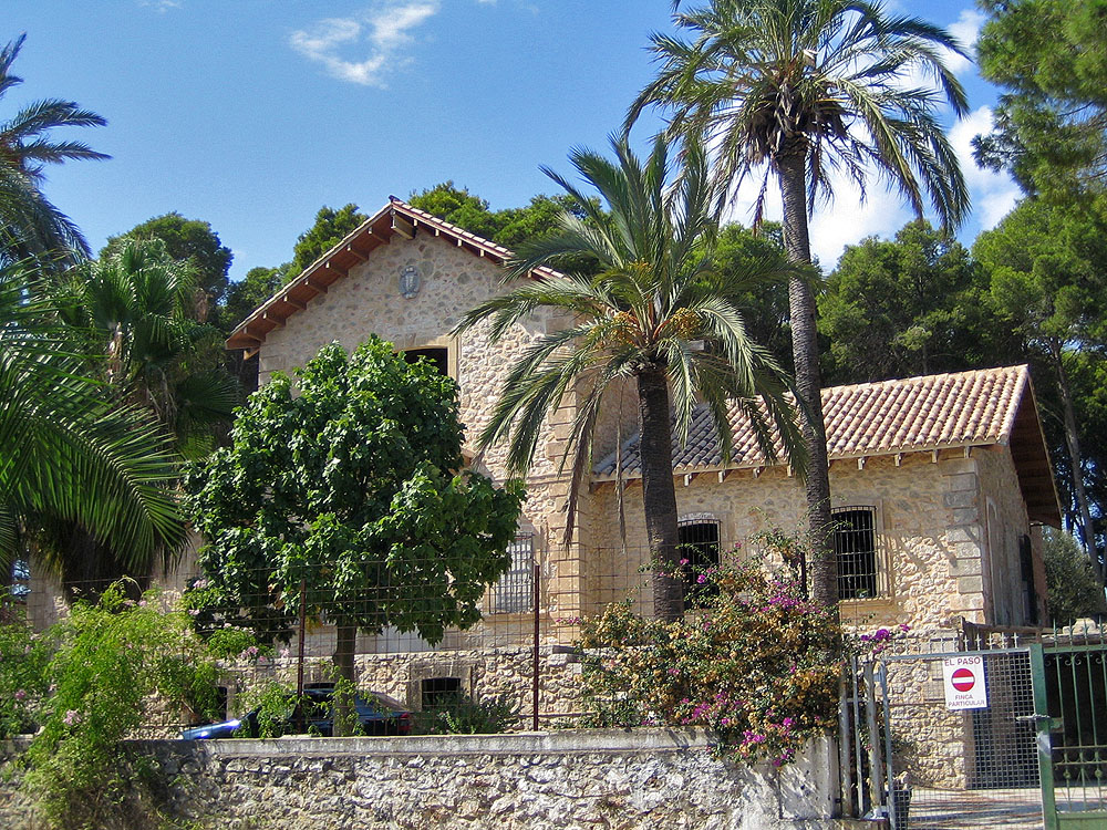 Casa d'Albors, to the northwest of Ondara, Marina Alta, Region of Valencia, Spain